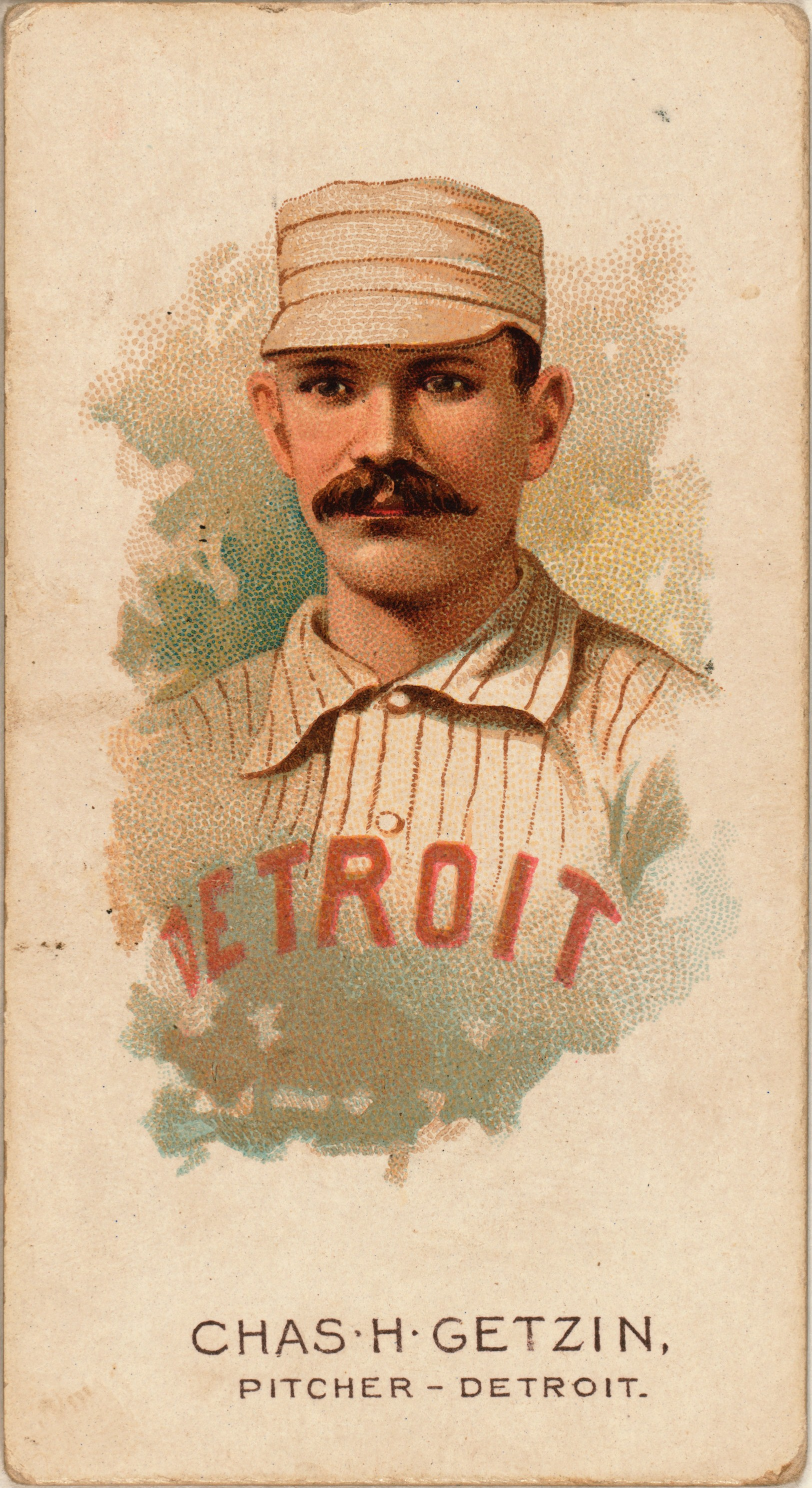 N29 Allen & Ginter World Champions 1888 reverse